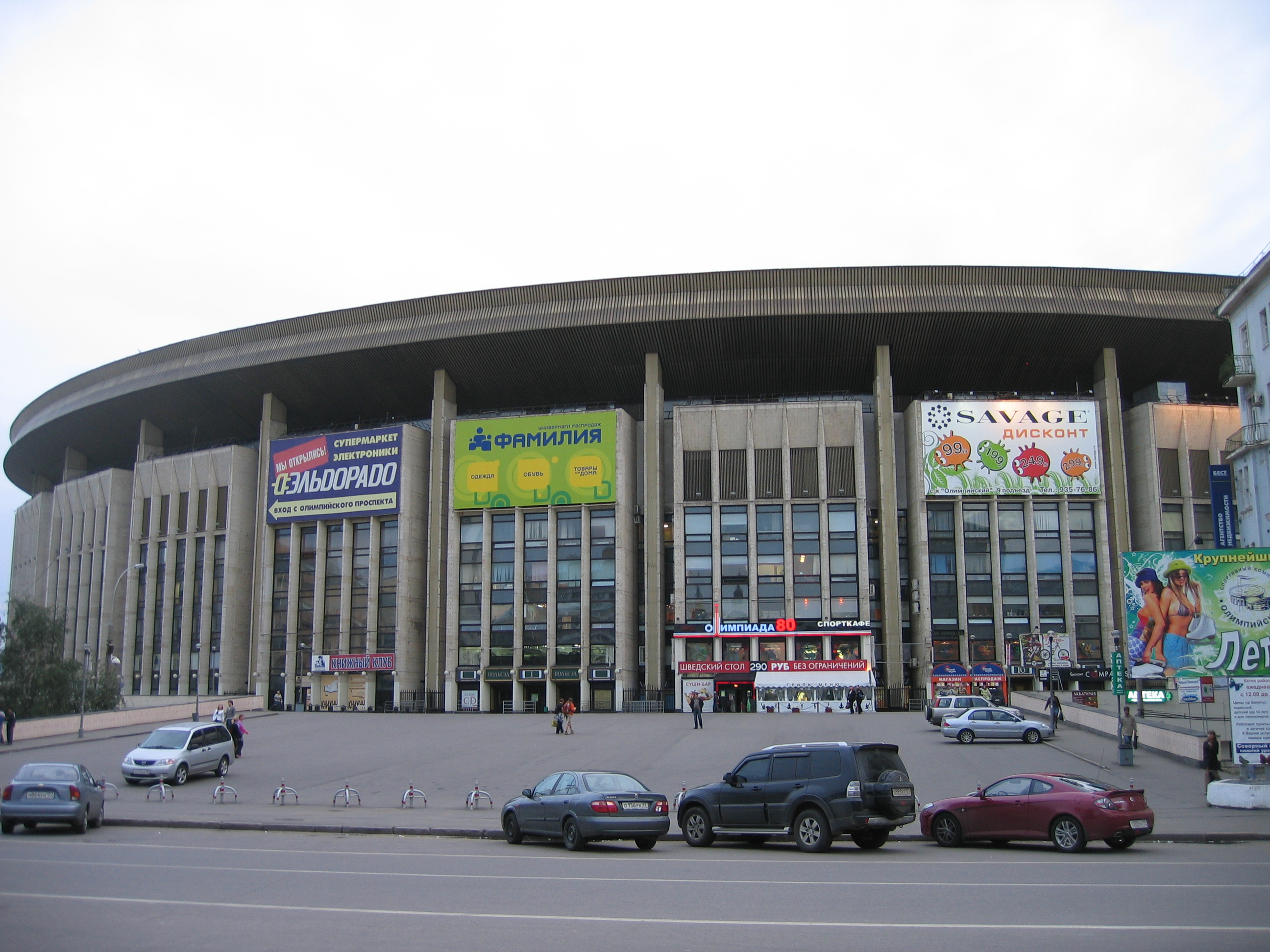 The Olimpiyskiy Hall in Moscow.